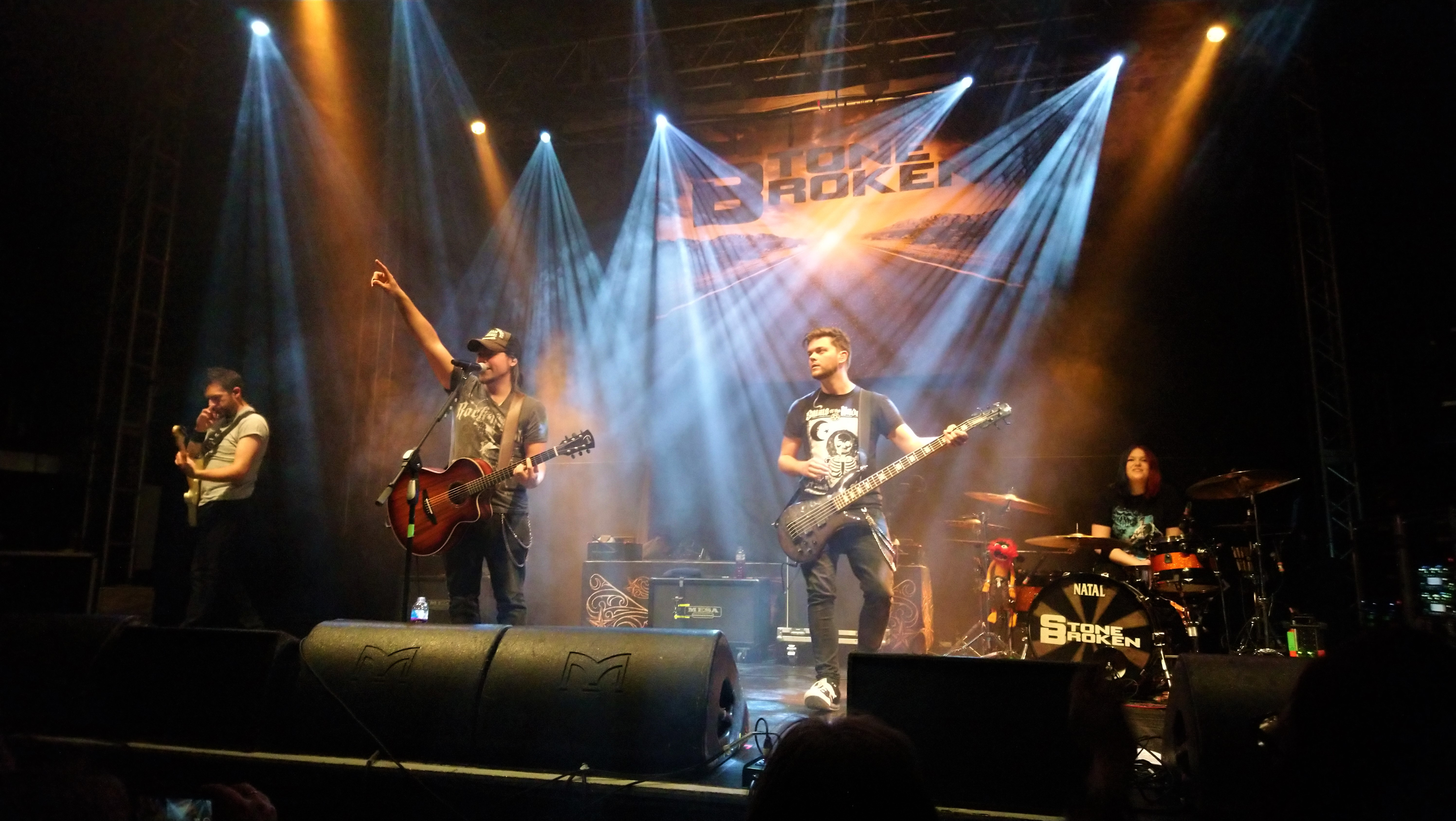 Stone Broken, Leeds O2 Academy, 2019